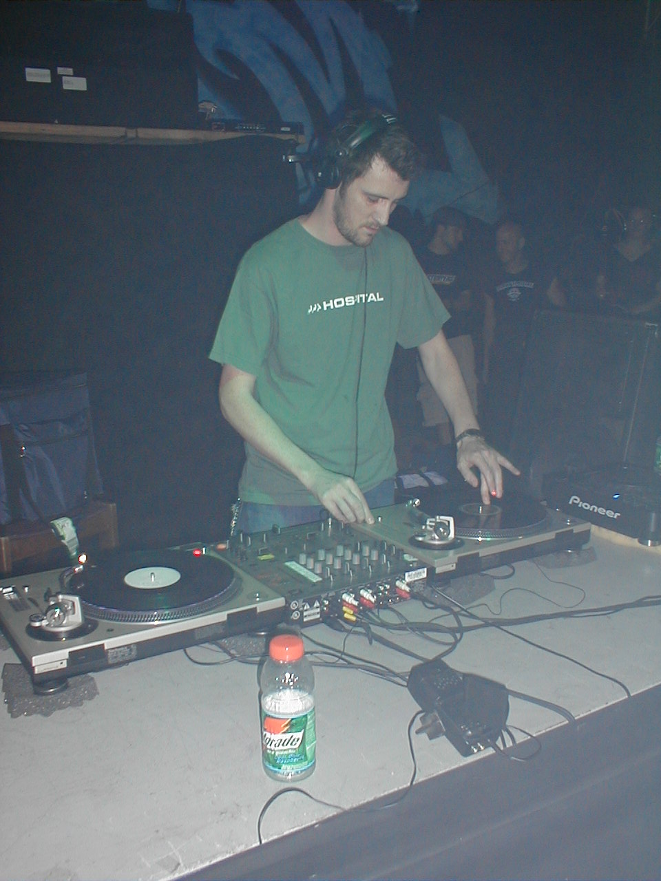 DJ Dara performs at a rave in Springfield Massachusetts in 2002. If published photo credit should read "Photo by Alkivar